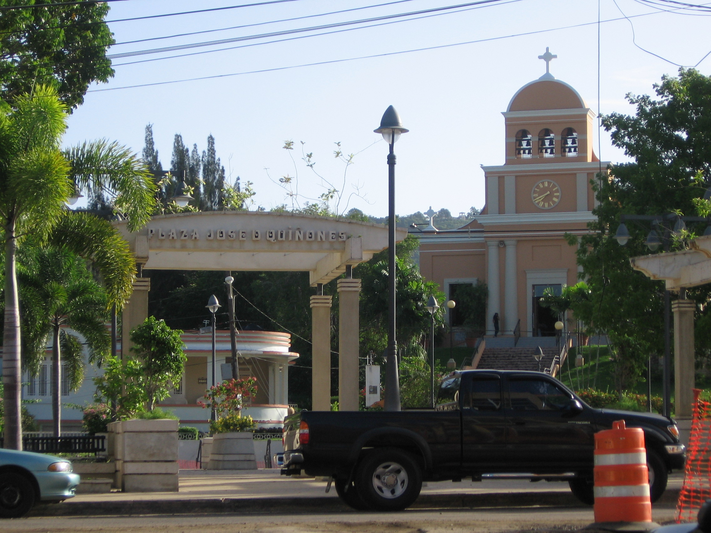 A photograph of Moca's town plaza from Calle Dona Magi. Summer 2008